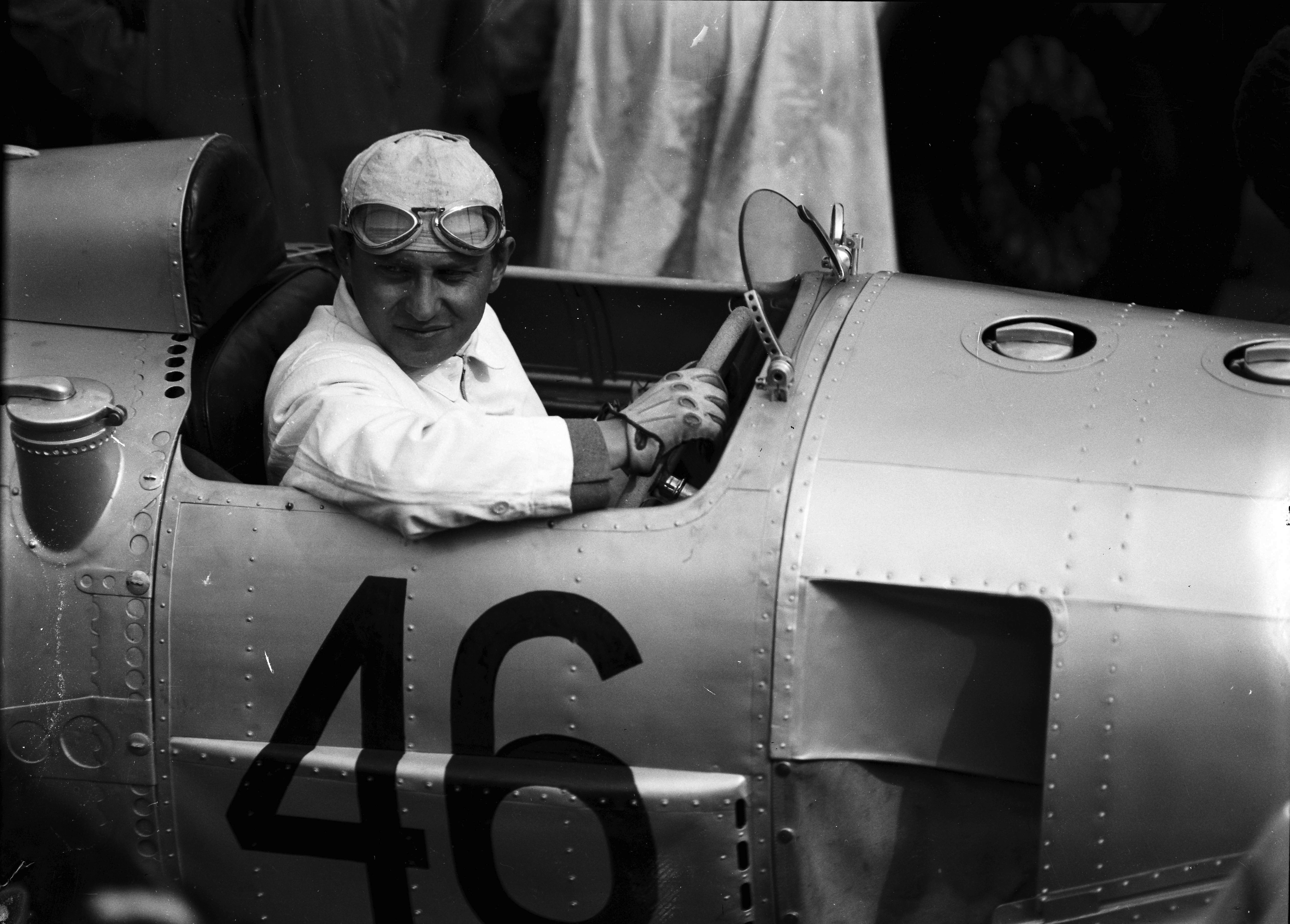 German racing driver August "Bubi" Momberger sits in the cockpit of his Auto Union Type A car during practice for the 1934 Avusrennen at the AVUS circuit, Berlin.